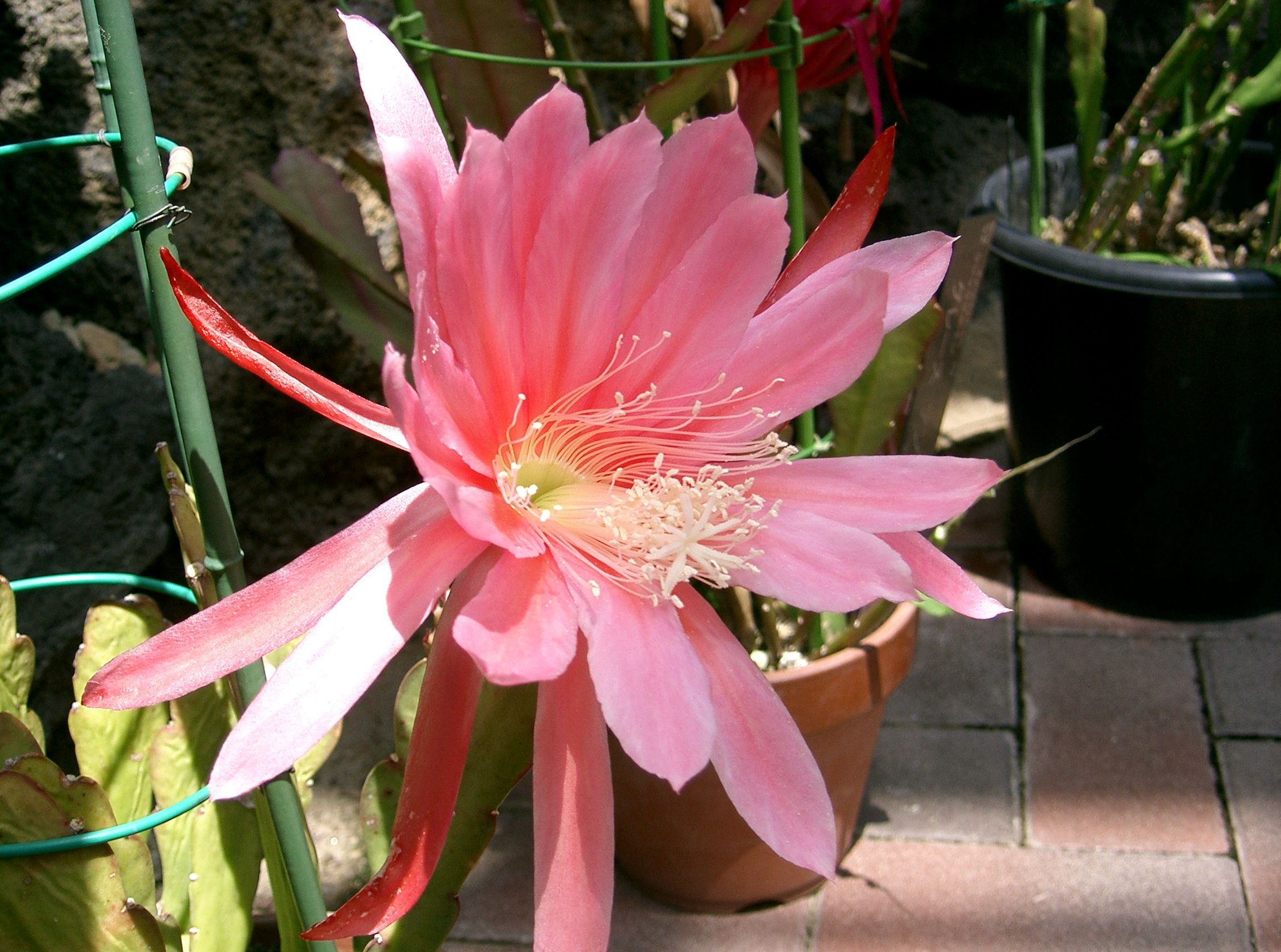 Epiphyllum cv.